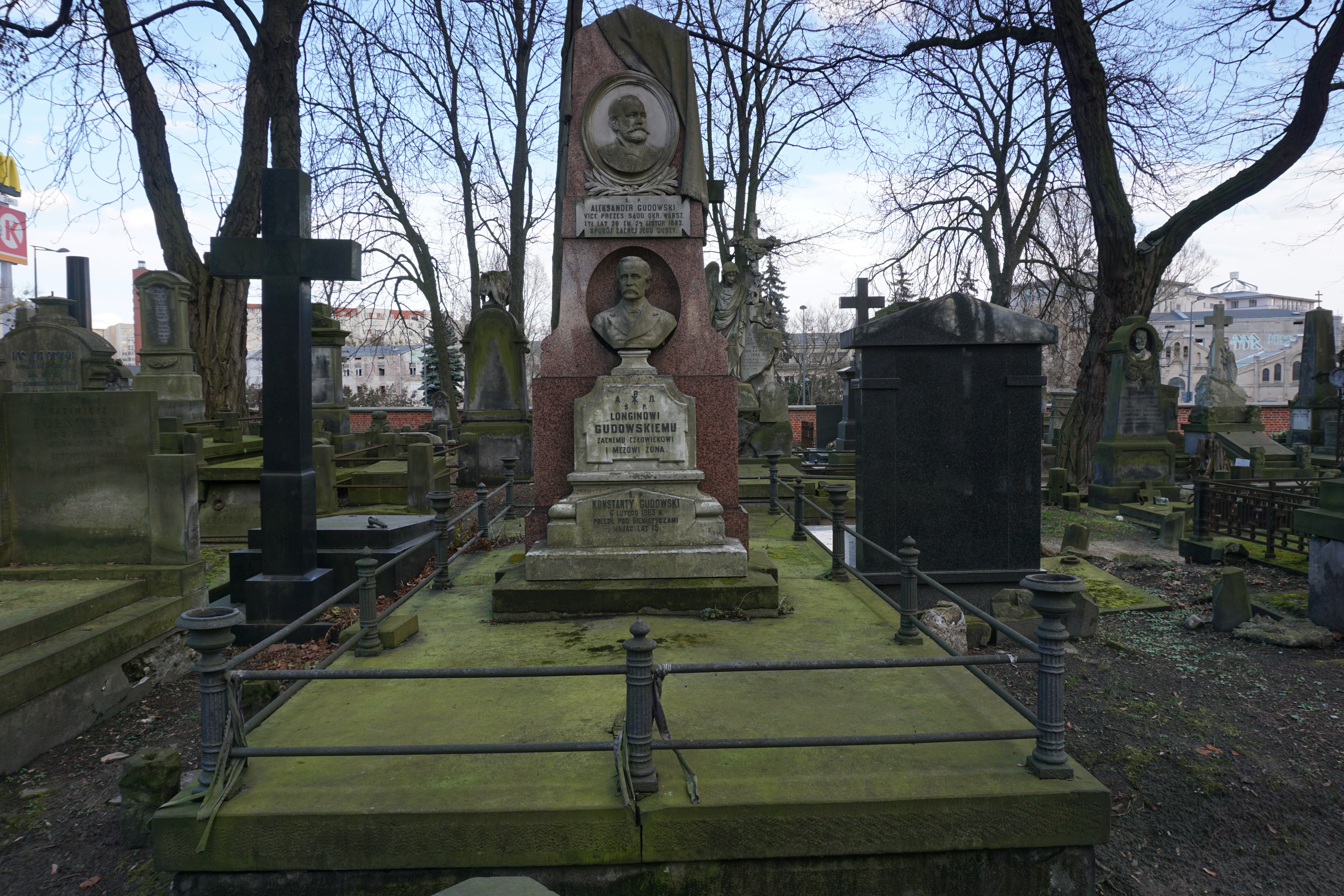 The grave of Longin Gudowski at the Powązki Cemetery (section 161, row 3, 4, grave 12, 13)